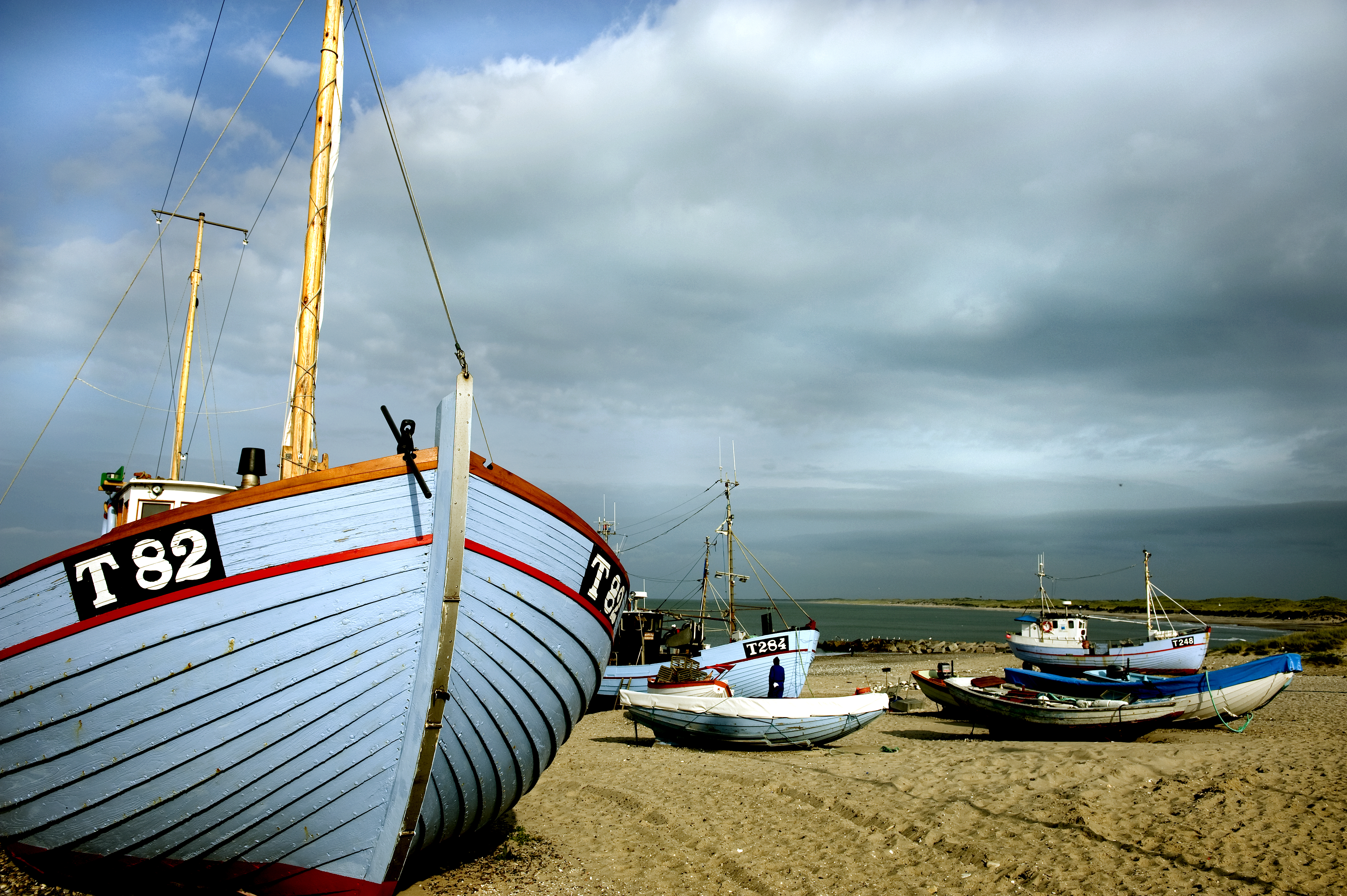 Limfjord. That's where the Danes spend their free time, because where does not look yacht clubs and the entire fjord covered by triangles of sails.